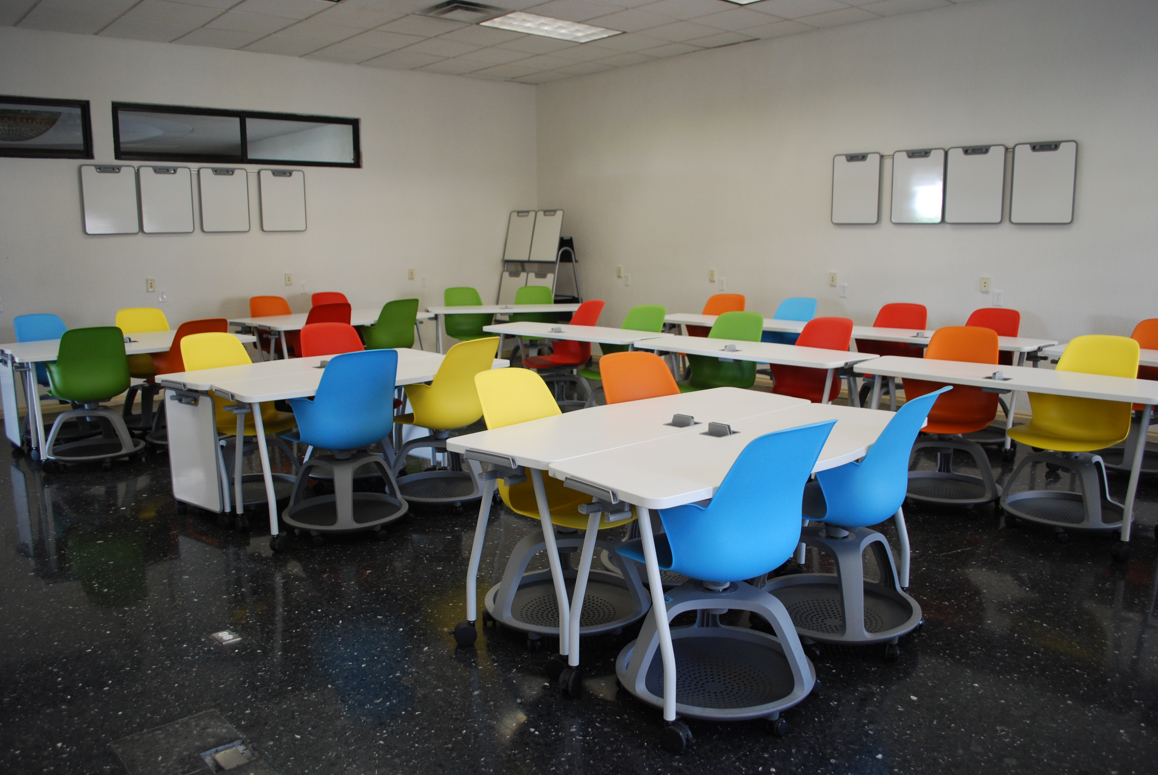 Redesigned adaptable classroom with movable furniture, for the necessities of the lesson; design introduced in the Modelo TEC21. Técnologico de Monterrey, Mexico City Campus.